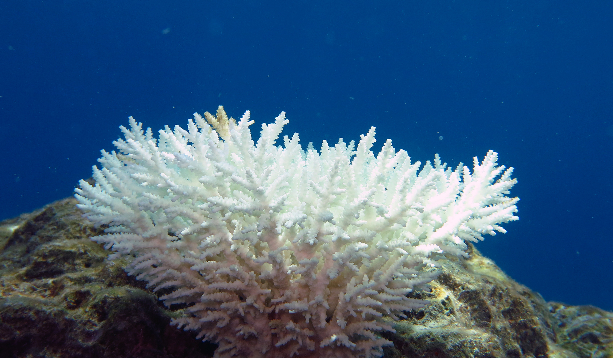 Bleached colony of Acropora coral_Andaman islands